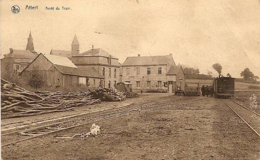 Old Postcard - Attert (Belgium) - Tram stop